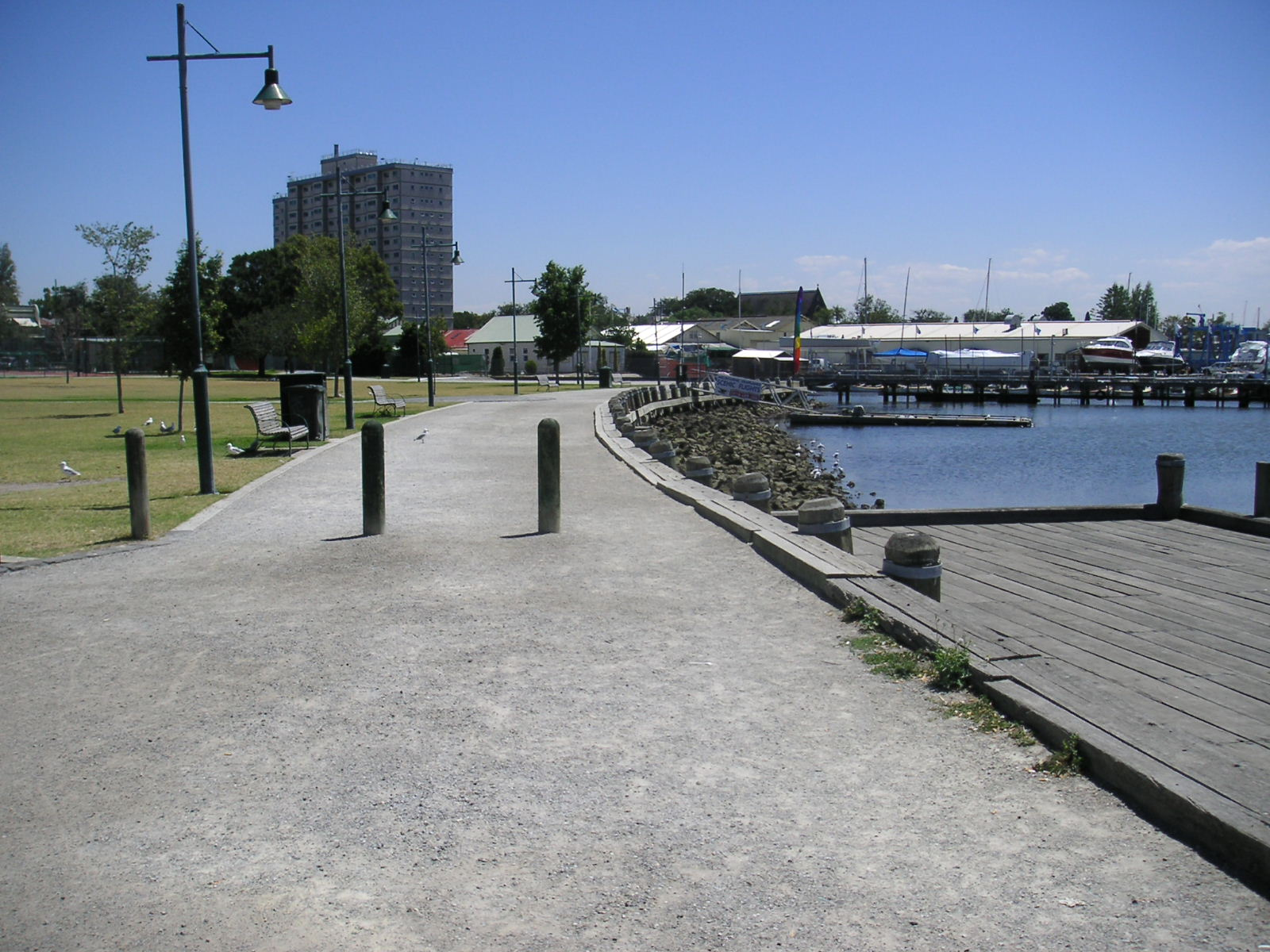 I enjoyed my time in Williamstown, Melbourne, Victoria, Australia.